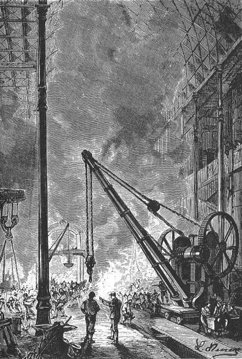 An illustration from Jules Verne's novel "The Begum's Fortune" (also published as "The Begum's Millions").